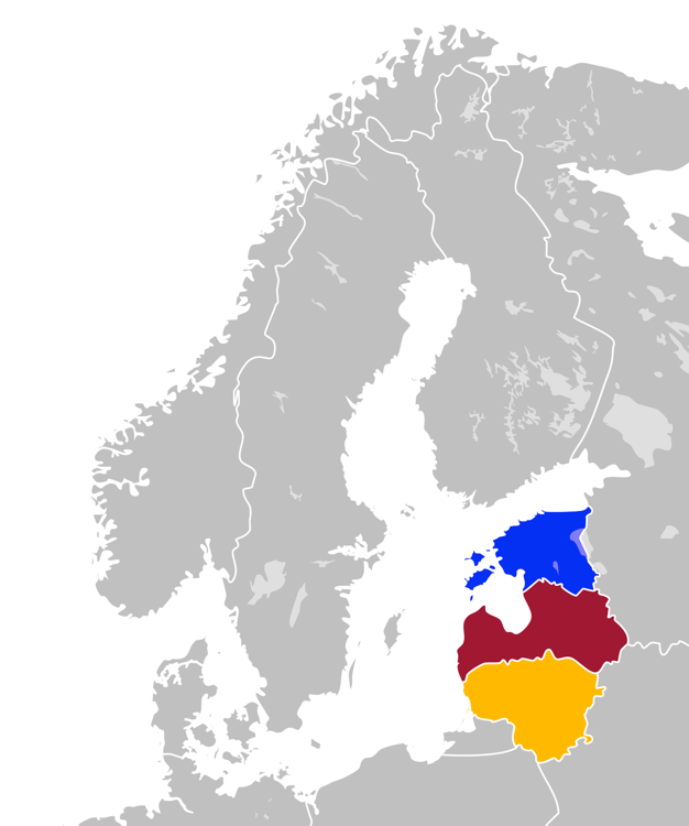 Estonia, Latvia & Lithuania. Coloured with the upmost colours on their respective flags, using the official HEX codes.